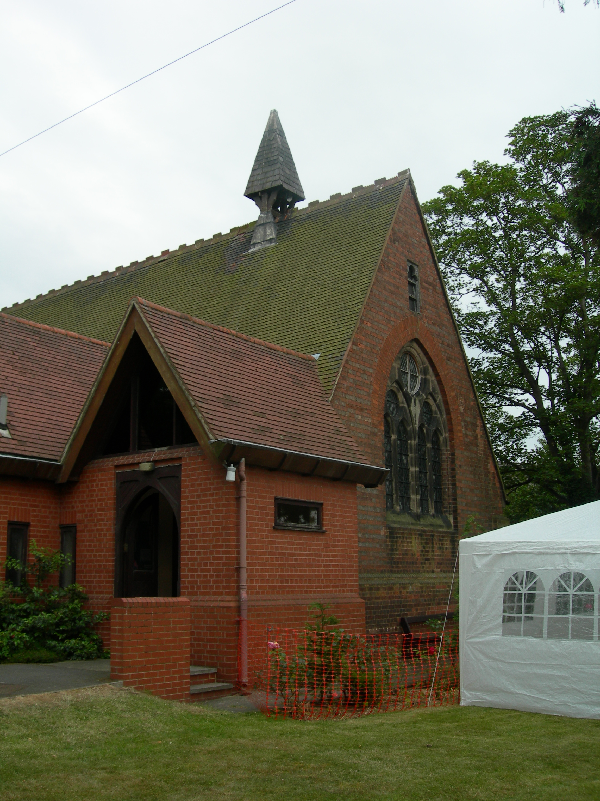 West end of St Saviour's parish church, Branston, Staffordshire